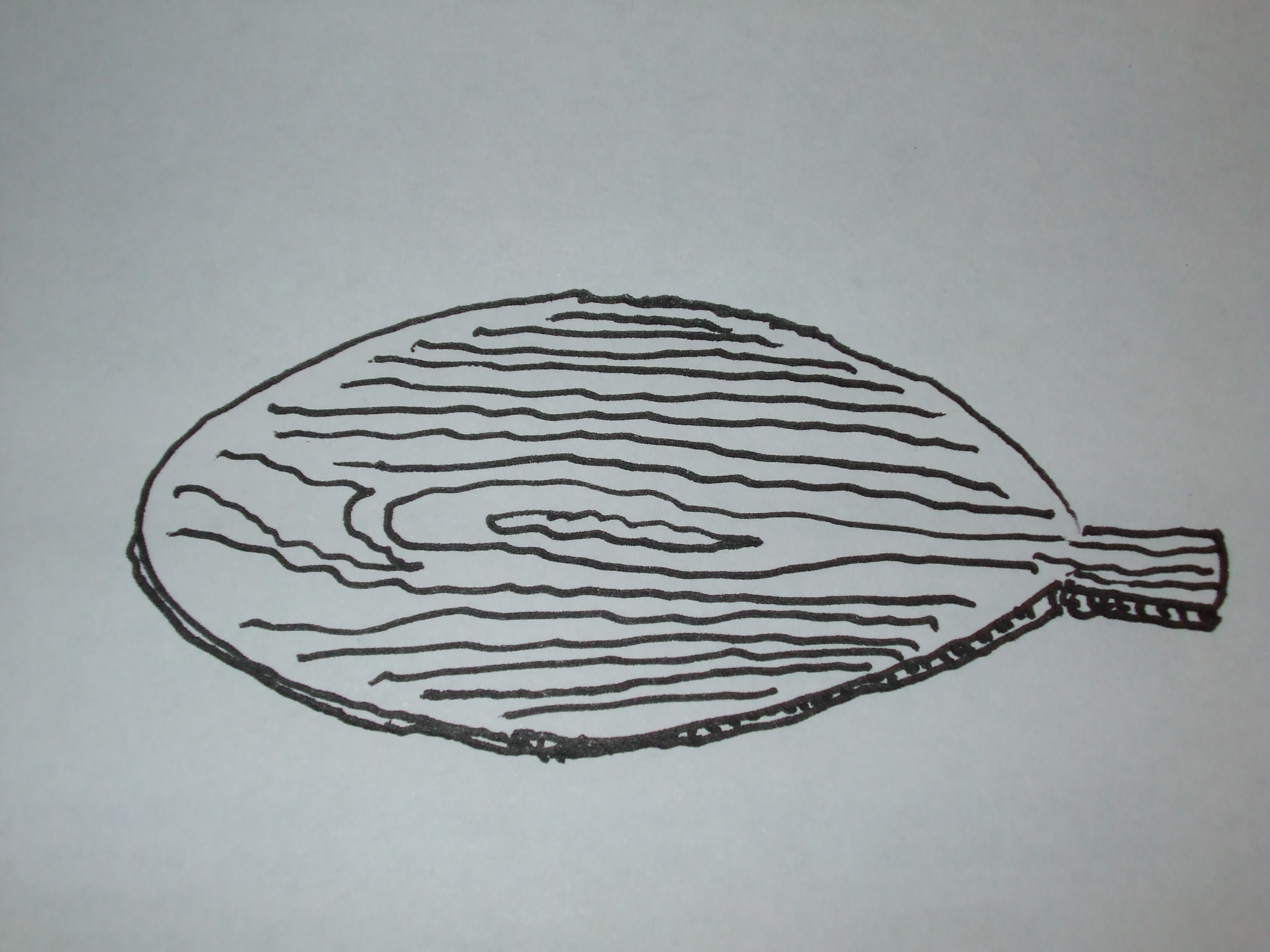 A free hand drawing of a panaro, a wooden tool to serve the polenta (used in Veneto, Northern Italy)